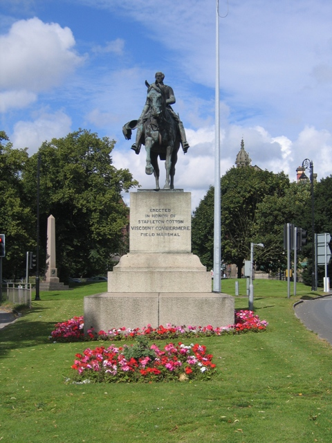 Statue of Viscount Combermere on Grosvenor Road. This bronze statue of Sir Stapleton Cotton, Viscount Combermere, is between the two lanes of traffic on Grosvenor Road. The statue is also directly opposite the entrance to Chester Castle. See also 526846. The inscriptions on the four sides of the rectangular block of stone record his battle exploits. Just behind the statue is a large traffic roundabout with its own trees and obelisk, and directly beyond that the road becomes Grosvenor Street.